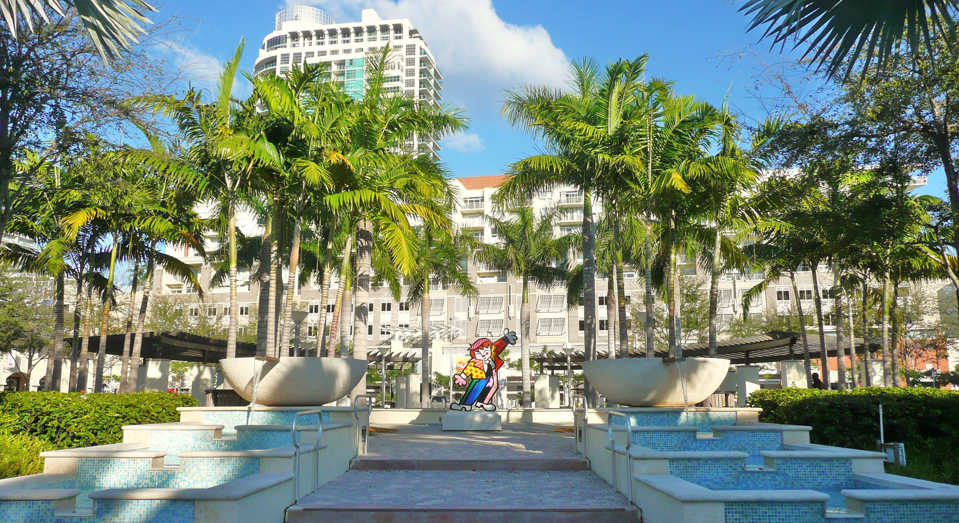 Digital photo taken by Marc Averette. The Shops at Midtown Miami, Florida, United States.